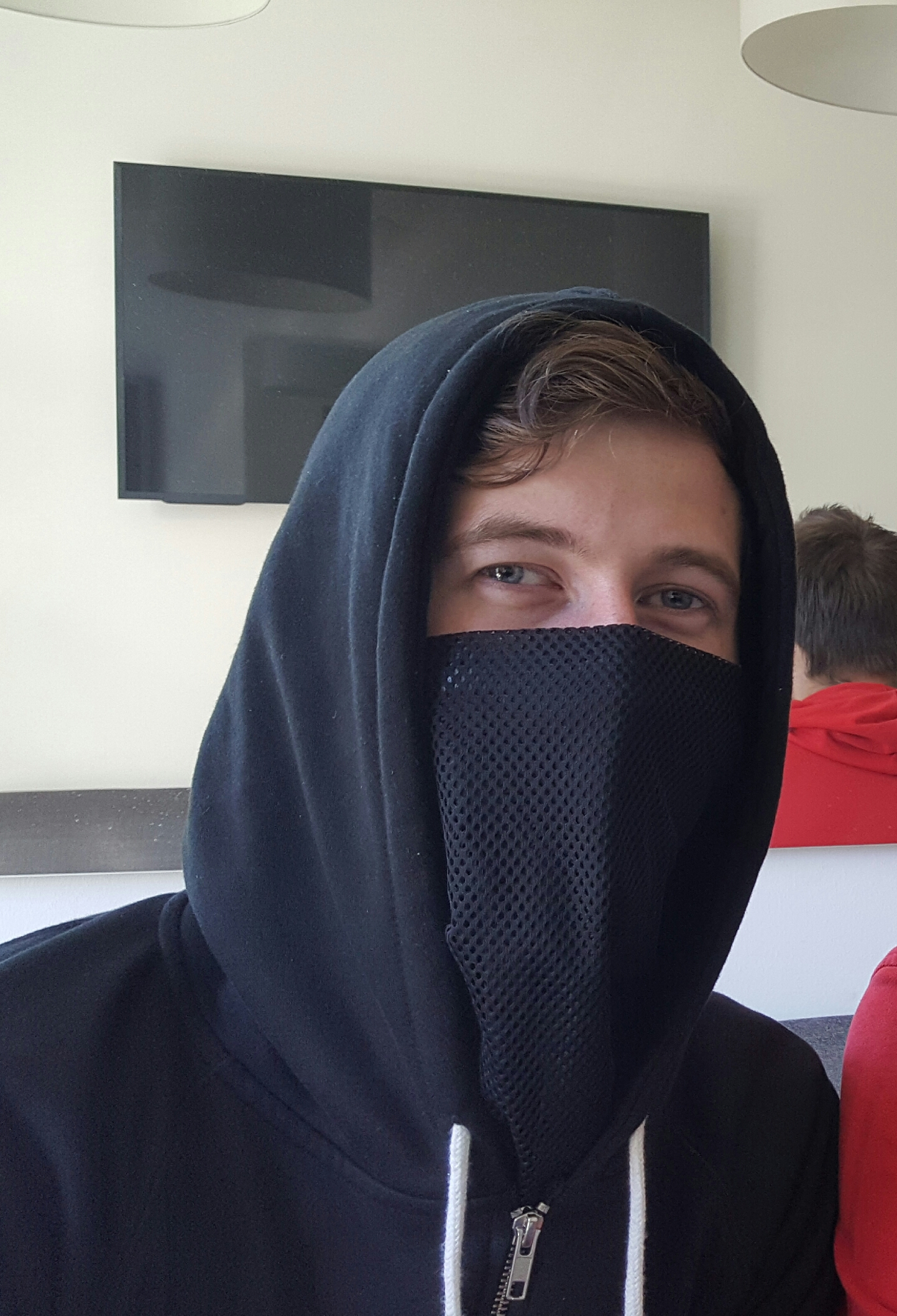 Alan Walker during an interview with German online-magazine Dance-Charts.